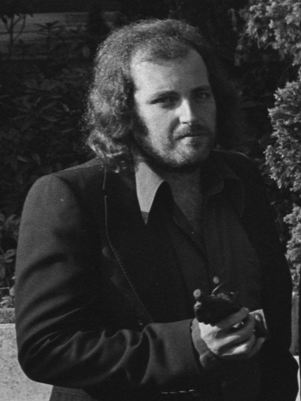 Hans Vermeulen, Uitreiking populaire Edisons 1977